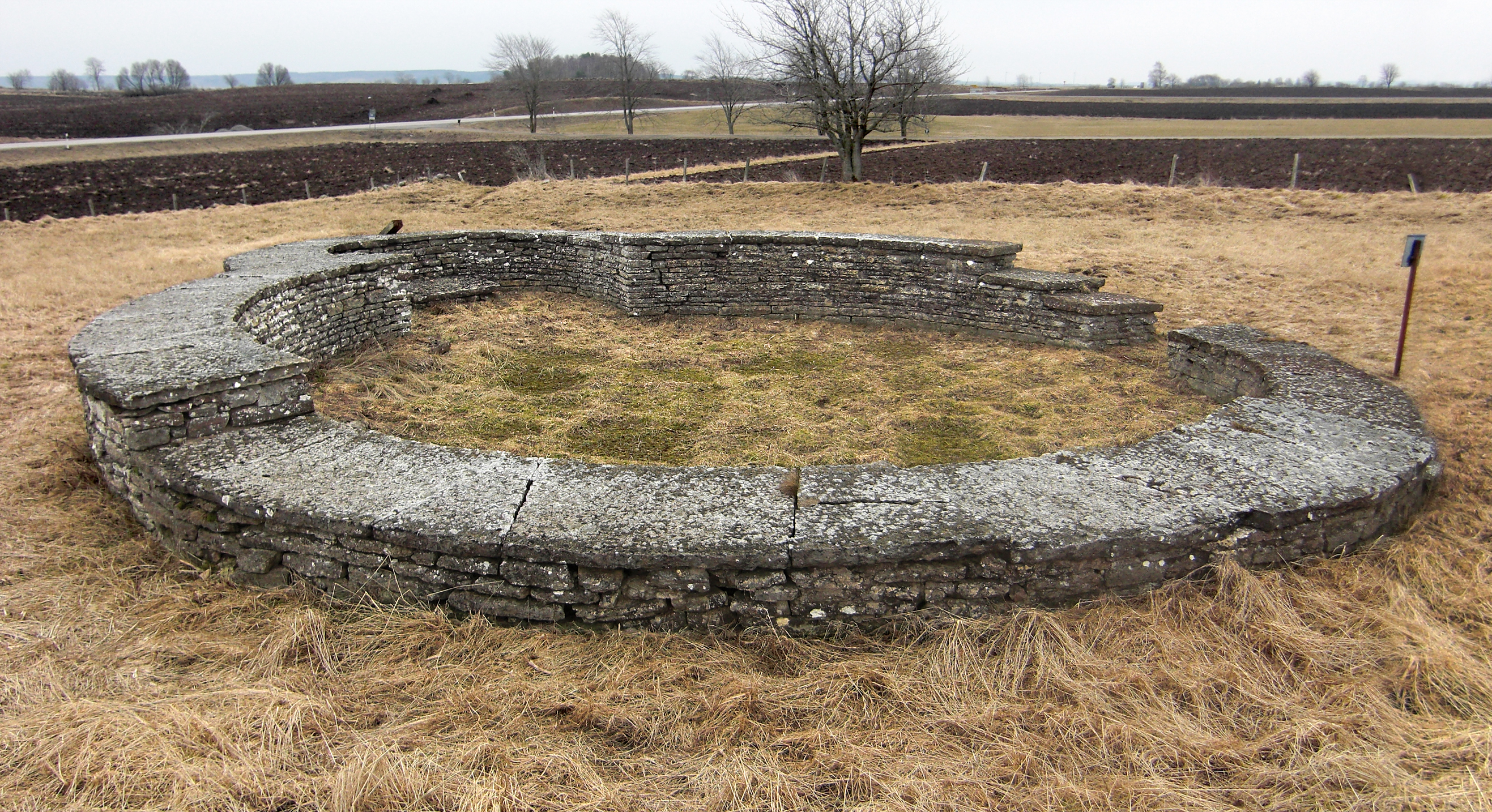 The Agnestad church ruin is situated 2 km southeast of Falköping in Västergötland, Sweden. The church was built in the 12th century. It was the parish church in Agnestad parish, that later bacame the Easten parish of Falköping, but the ruin is nowadays situated in Karleby parish. During the Mediaeval times the parish belonged to the Ålleberg fjärding of Vartofta hundred. The ruin is situated less than one kilometer north of the northen end of Mount Ålleberg.